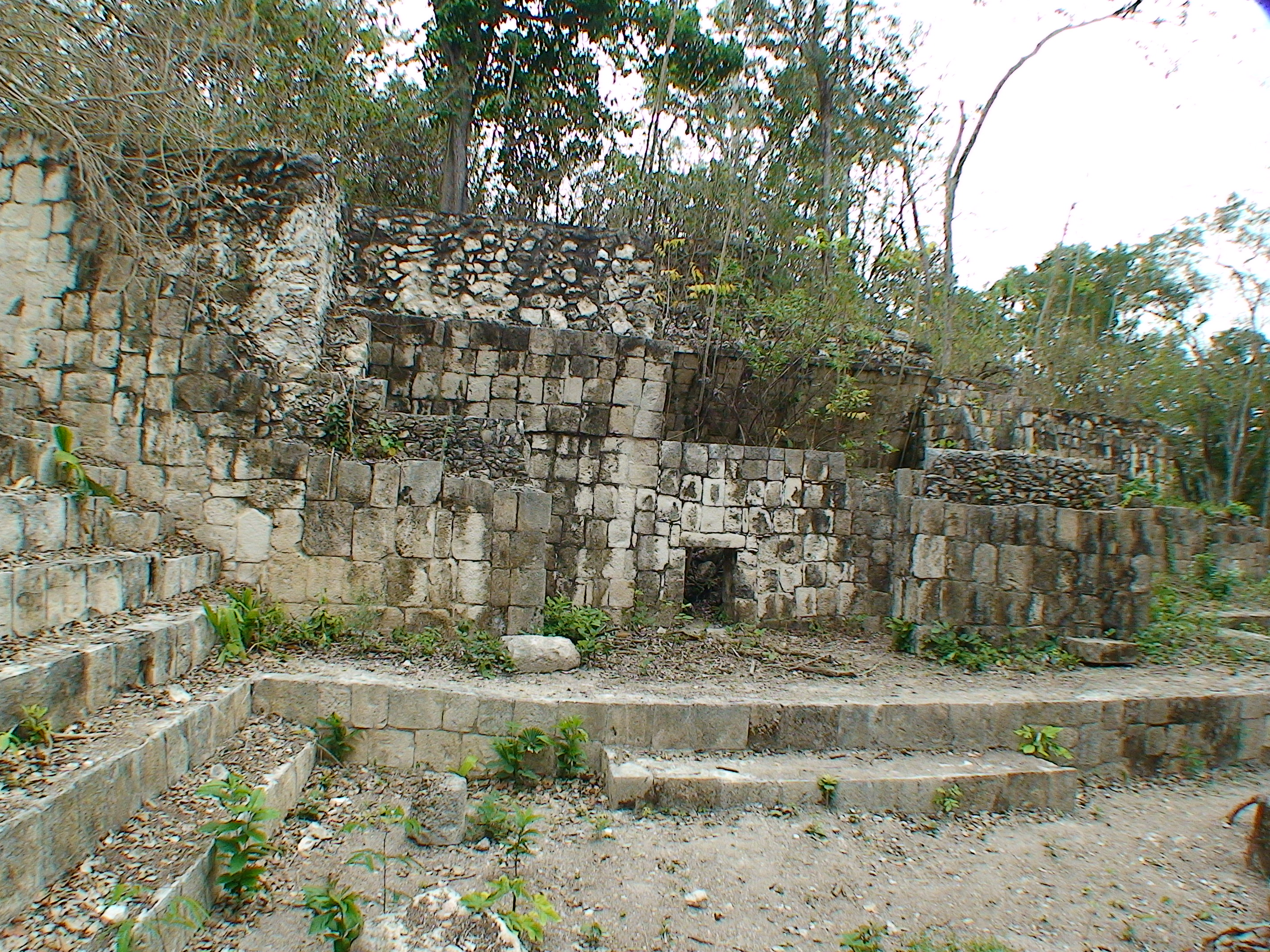 Acanmul, Campeche, Mexico: sweathbath